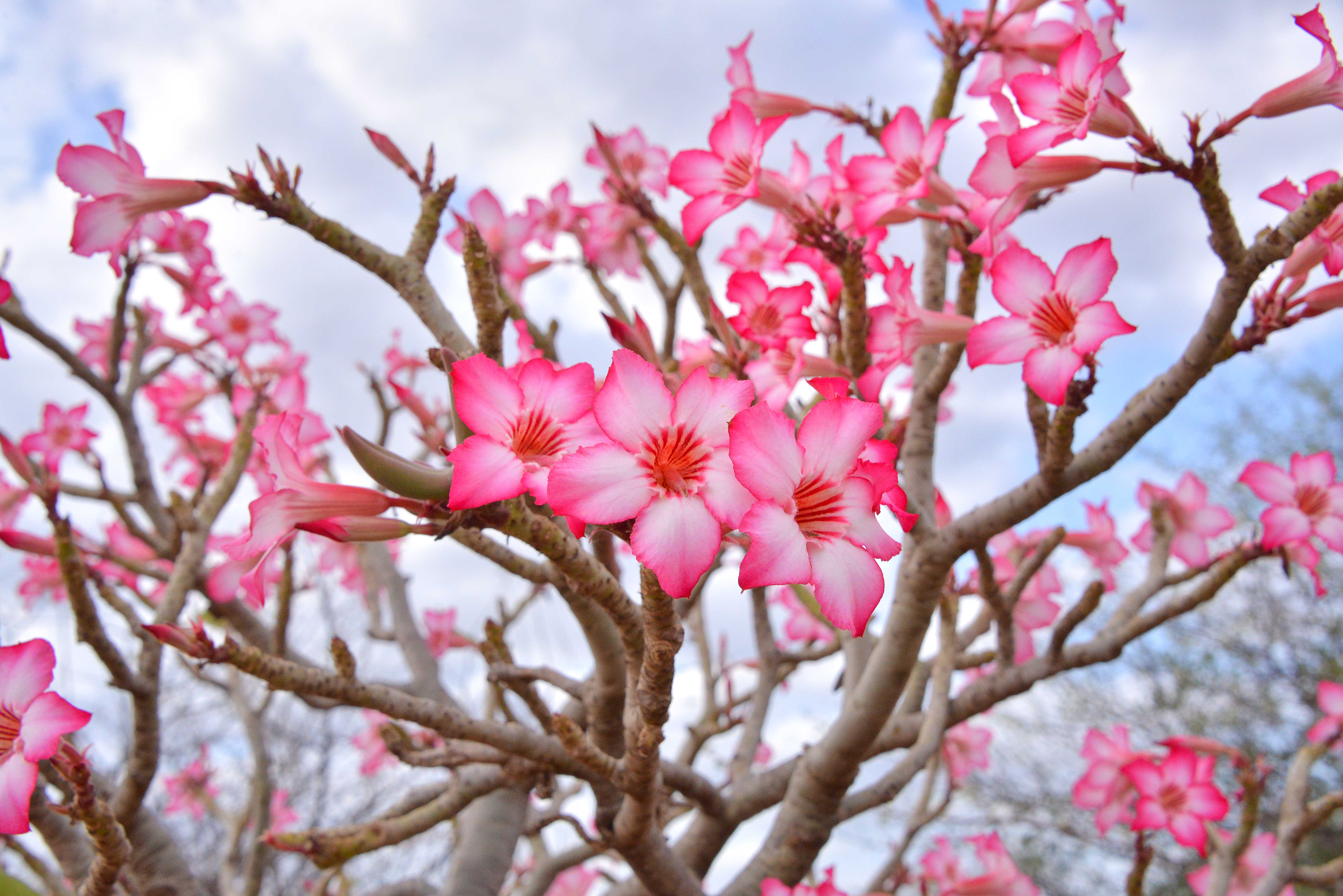 adenium obesum